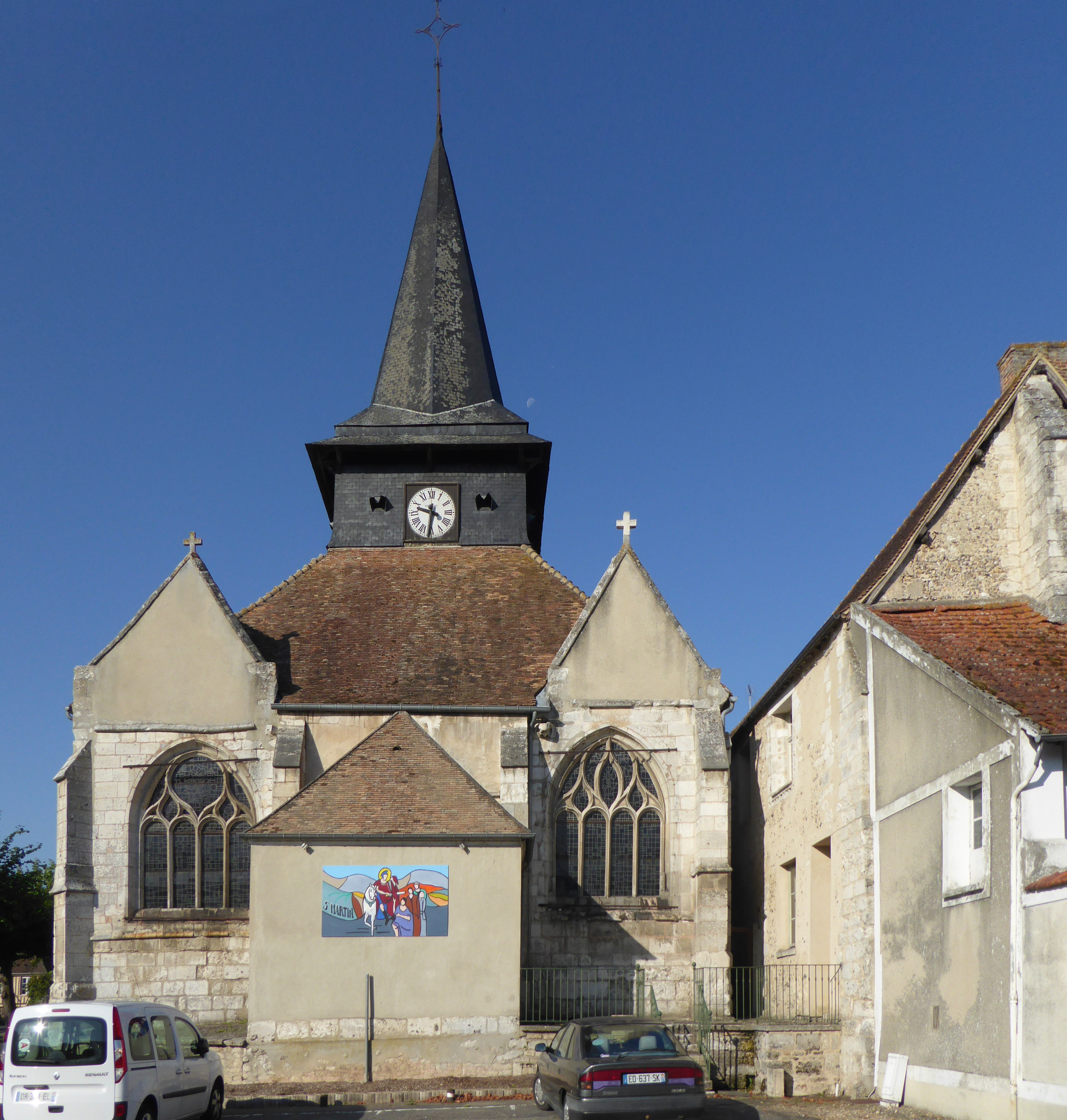 Exterior of the Saint-Martin church, located in Gasny (Eure, France)